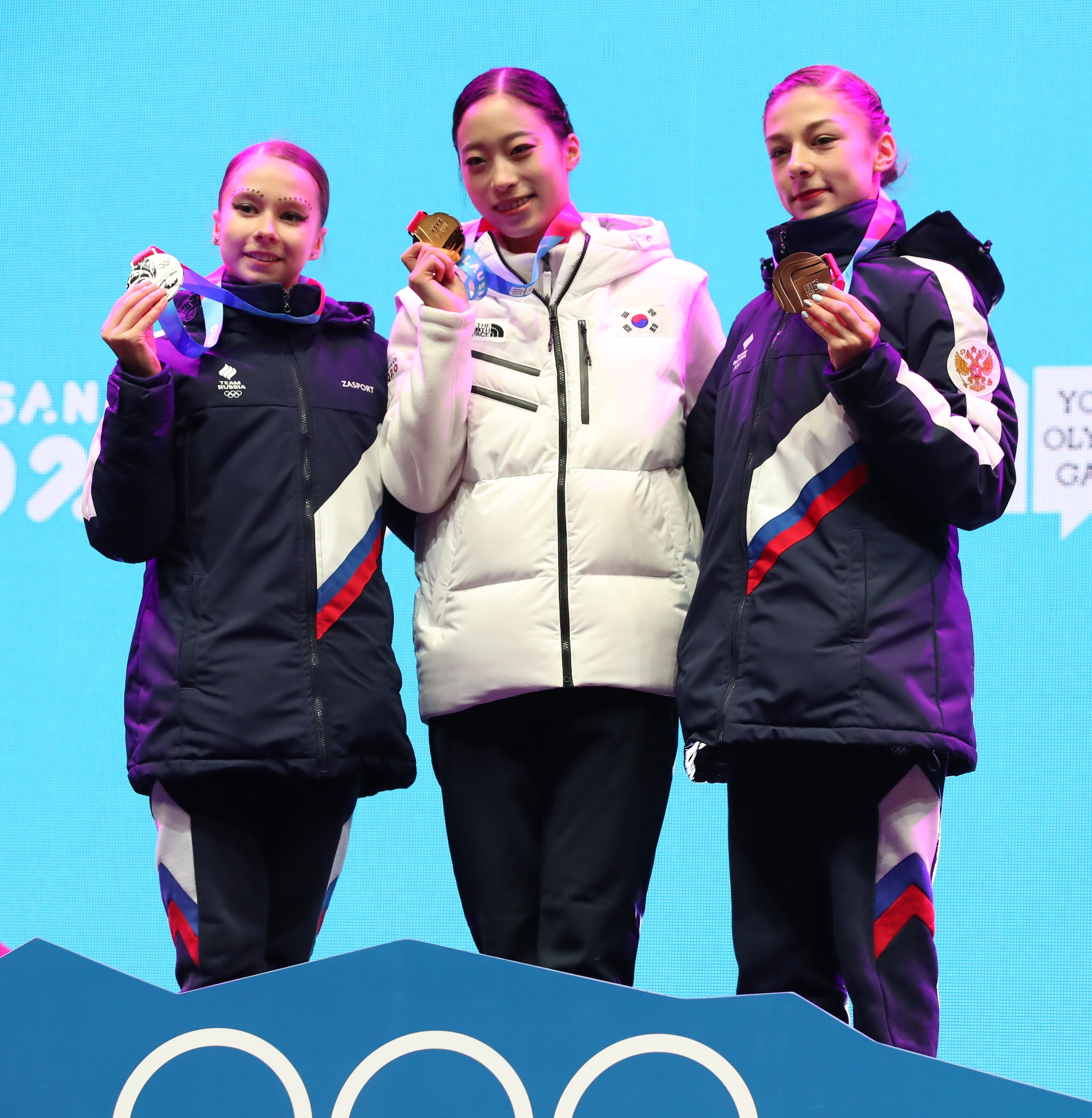 Medal ceremony of Figure skating – Women's Single Skating at the 2020 Winter Youth Olympics in Lausanne on 13 January 2020.